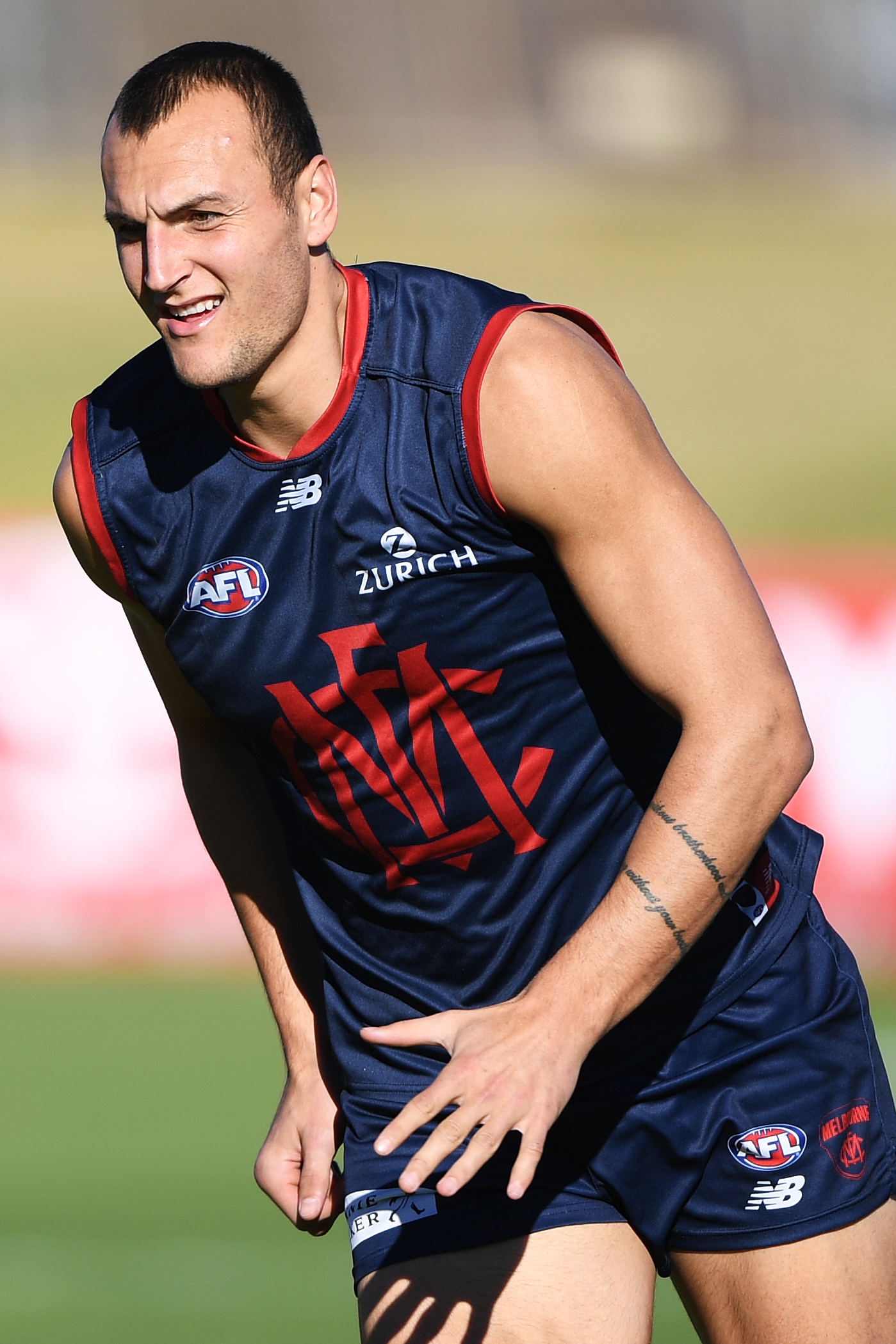 Braydon Preuss of Melbourne during Melbourne training at Traeger Park on Saturday, 20 July 2019 in Alice Springs, Northern Territory.